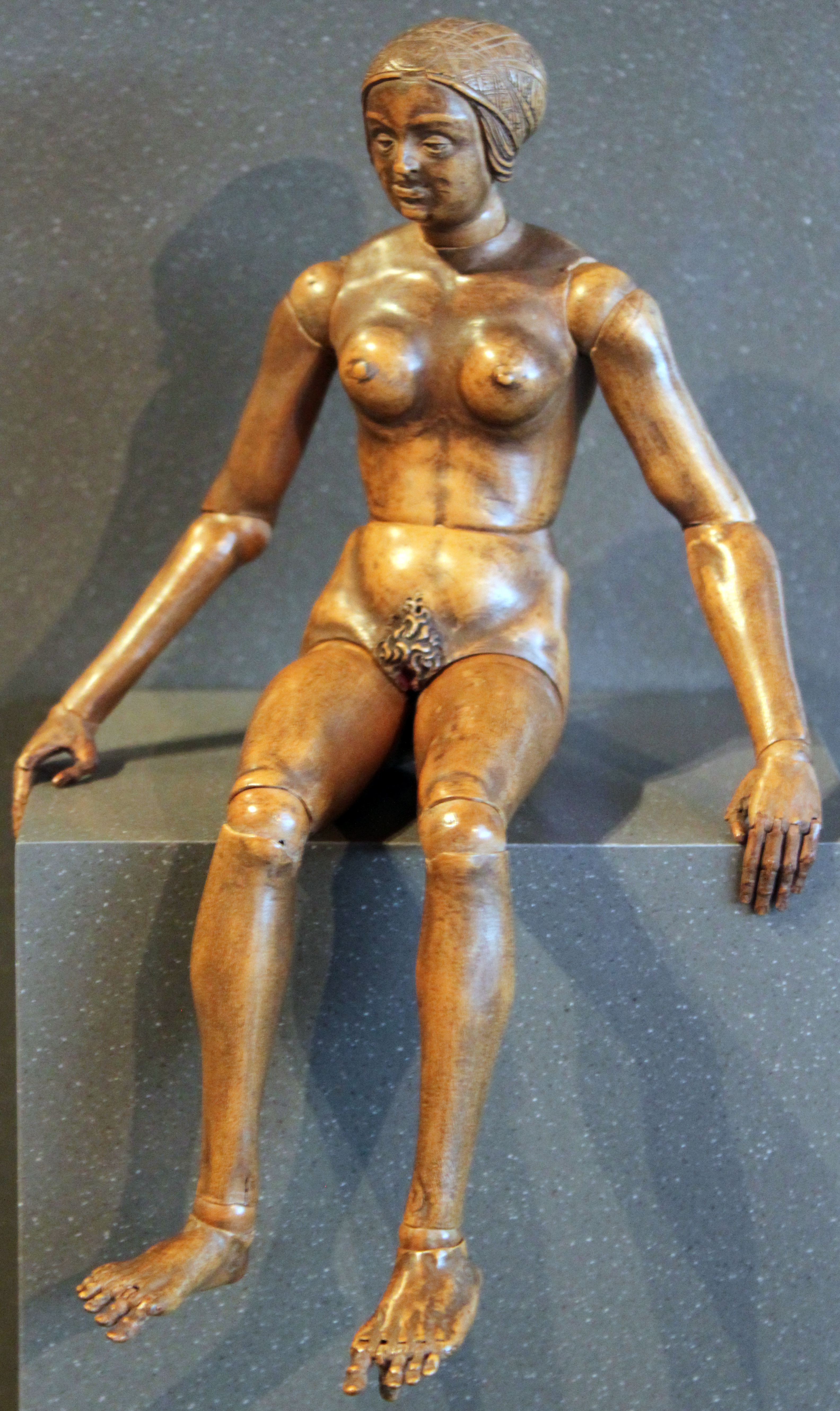 Female jointed doll, Nuremberg c. 1520, boxwood, Bodemuseum Berlin (Inv. 2167)